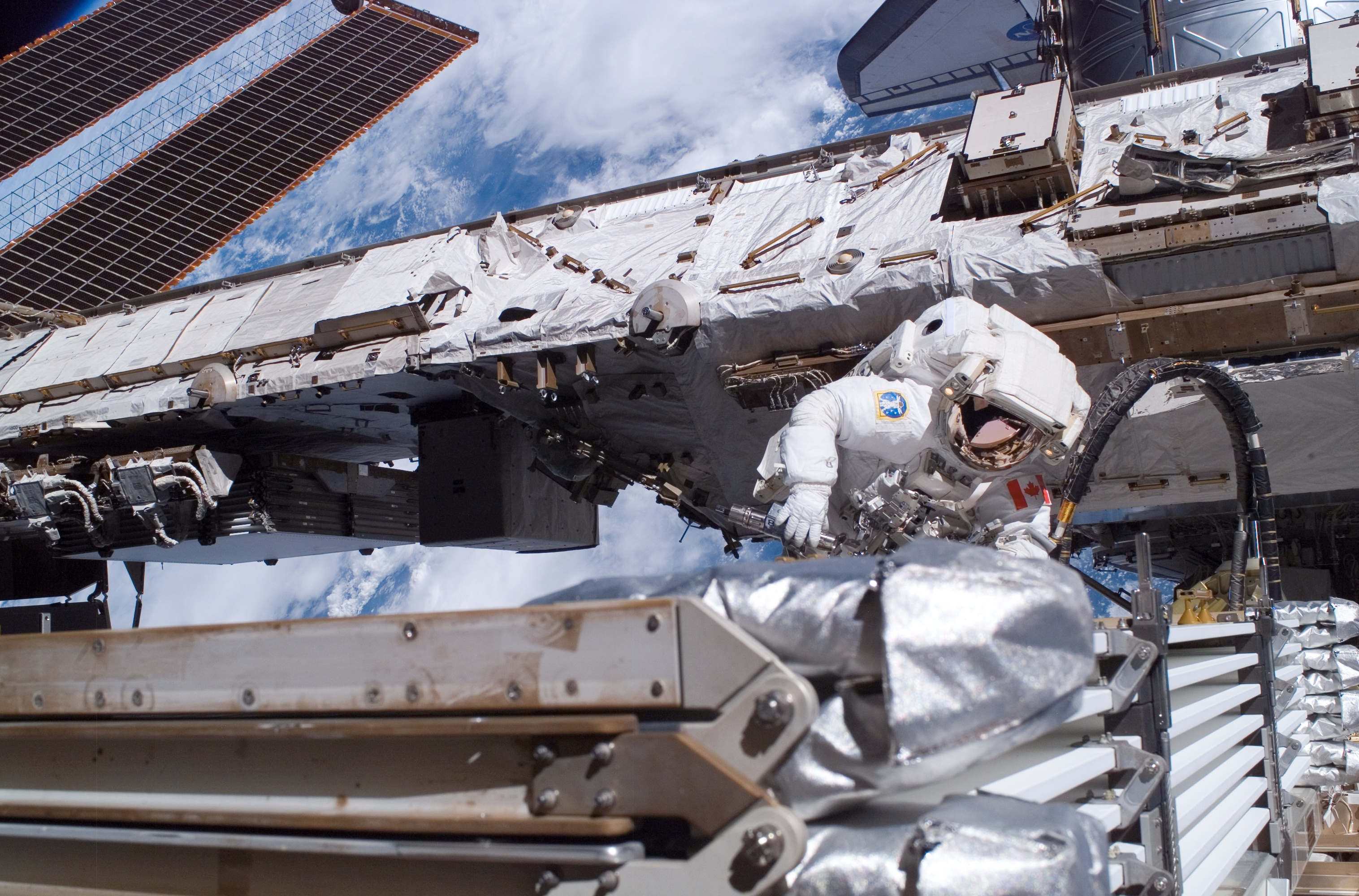 Astronaut Dave Williams, STS-118 mission specialist representing the Canadian Space Agency, participates in the mission's first planned session of extravehicular activity